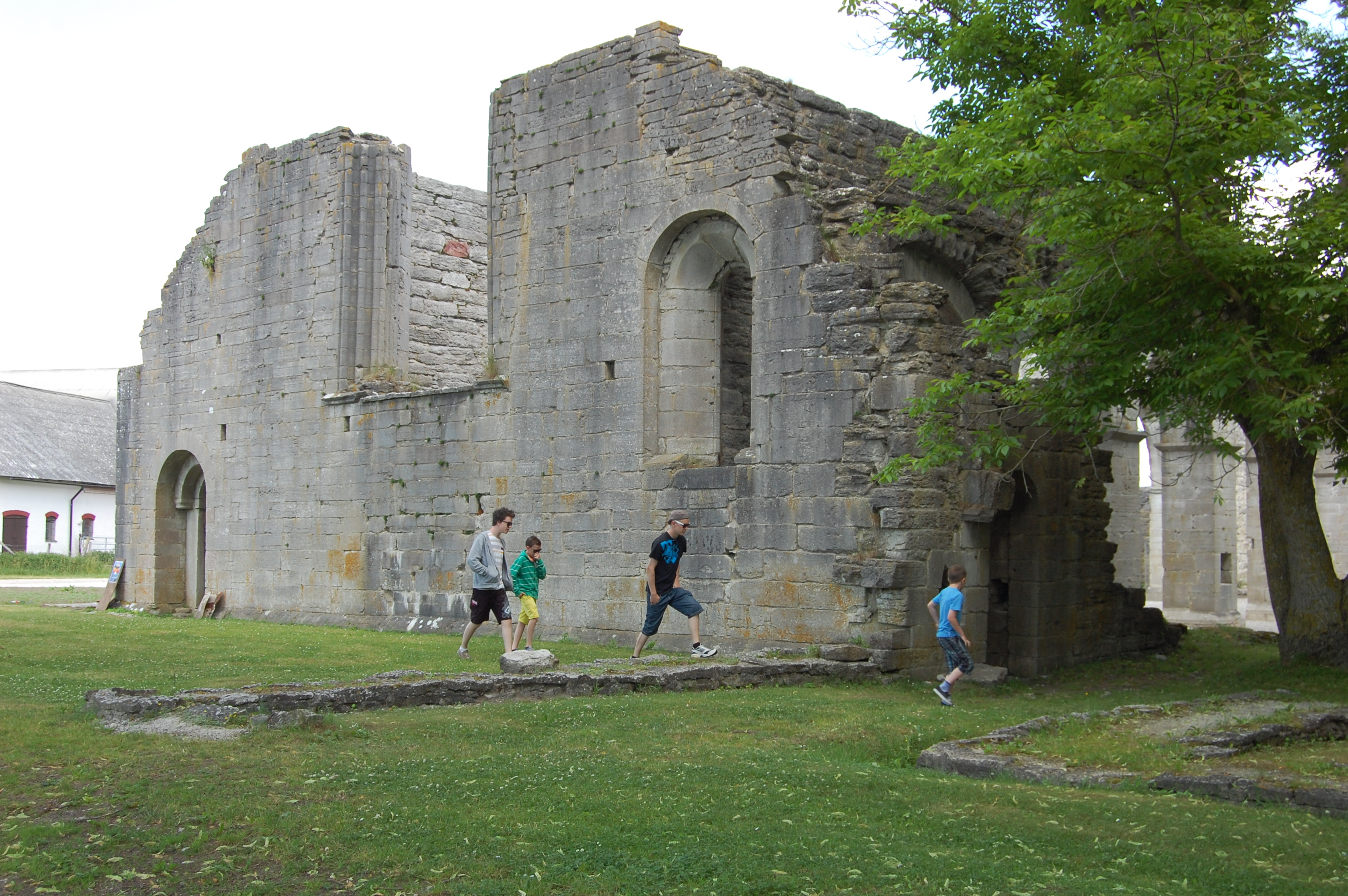 Roma abbey, church ruins